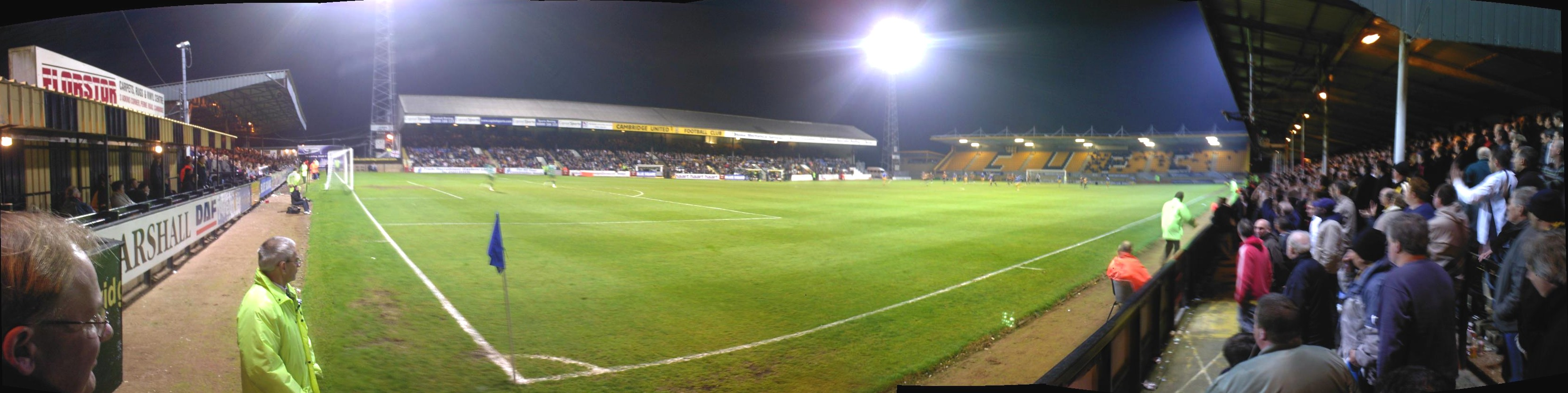 A panoramic photo taken at The Abbey Stadium, the match finished 2-0 to Cambridge United against Torquay United. Author: Alix Dorrington